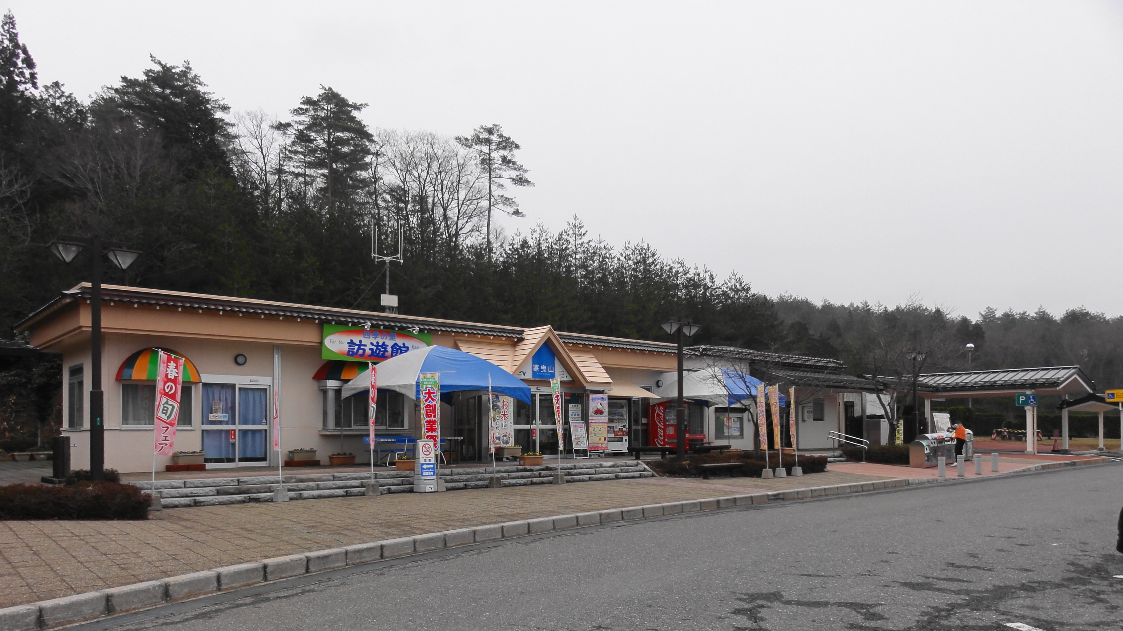 Kanbikiyama Parking Area,Hiroshima prefecture, Japan